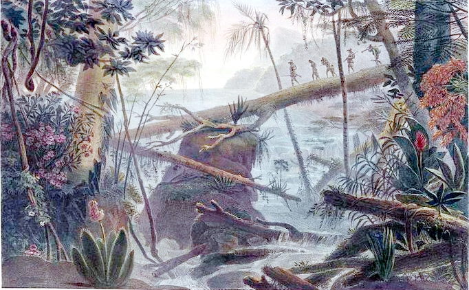 Title of work: Jungle in the Paraíba do Sul river margins. In: Voyage pittoresque et historique au Brésil, ou Séjour d'un artiste français au Brésil, depuis 1816 jusqu'en 1831 inclusivement, epoques de l'avènement et de l'abdication de S. M. D. Pedro 1er, fondateur de l'Empire brésilien. Dédié à l'Académie des Beaux-Arts de l'Institut de France. (published 1834-1839) Library Division: Humanities and Social Sciences Library / Print Collection, Miriam and Ira D. Wallach Division of Art, Prints and Photographs Description: 3 v. facsim., map, 2 plans, port. 50 cm. and 6 portfolios (153 plates) (incl. ports.) 59 cm. Item/Page/Plate Number: I/1-er Cahier - Pl. 1 Medium: Lithographs -- Hand-colored Specific Material Type: Prints Subject(s): Brazil Forests Indians of South America Natural bridges Prisoners of war Soldiers Additional Name(s): Debret, Jean Baptiste, 1768-1848 -- Artist Debret, Jean Baptiste, 1768-1848 -- Author Collection Guide: The Luso-Hispanic New World in Early Prints and Photographs Digital Image ID: 1224033 Digital Record ID: 568654 Digital Record Published: 8-17-2004; updated 10-3-2007